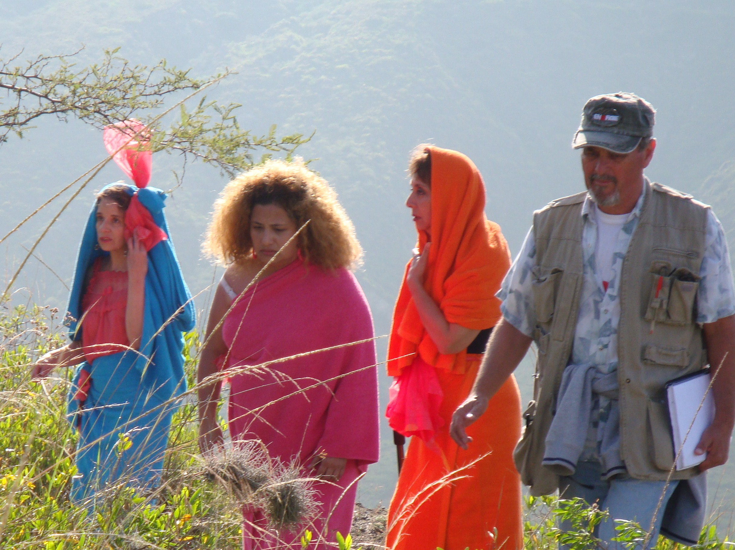 zuquillo mas Carl West